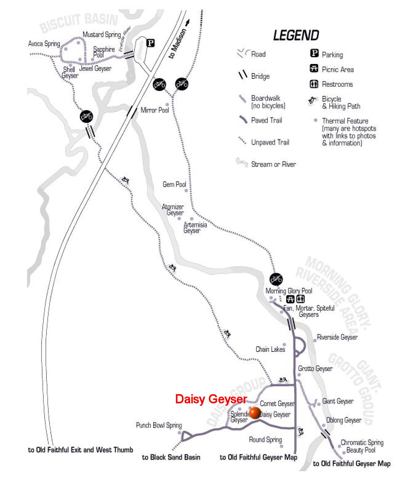 Map of northern section of Upper Geyser Basin with Daisy Geyser annotated